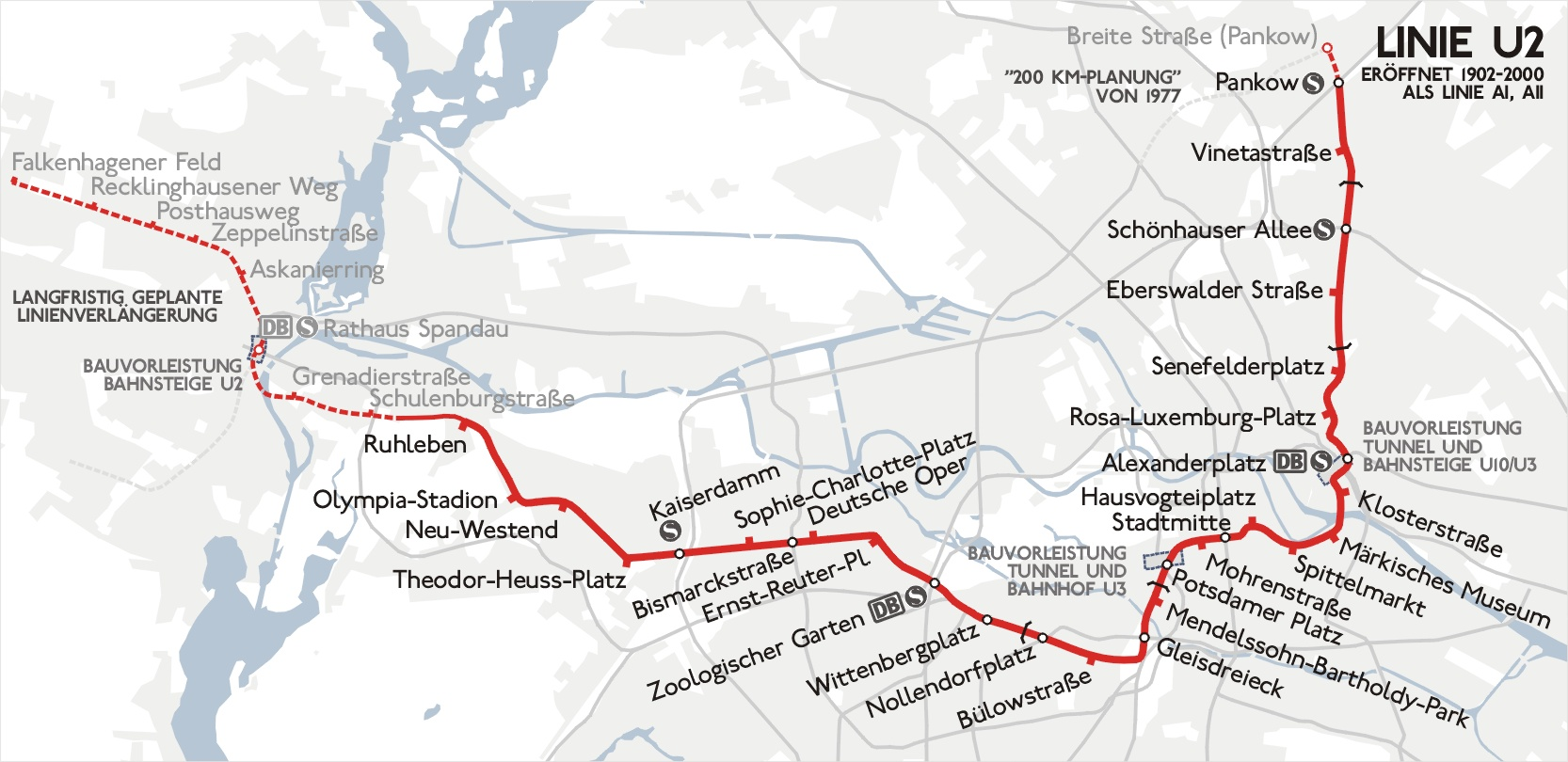 Map of the Berlin U-Bahn line U2